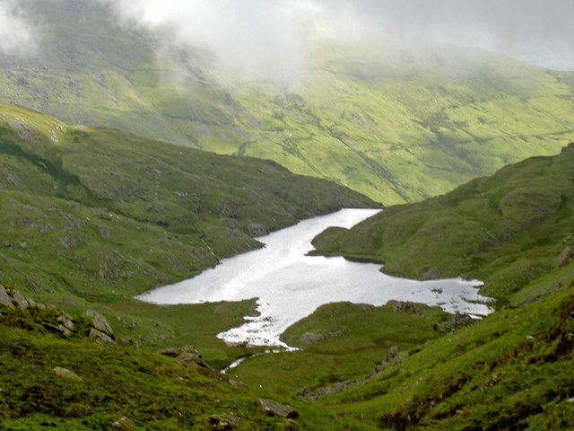 Llyn Cwm-y-foel